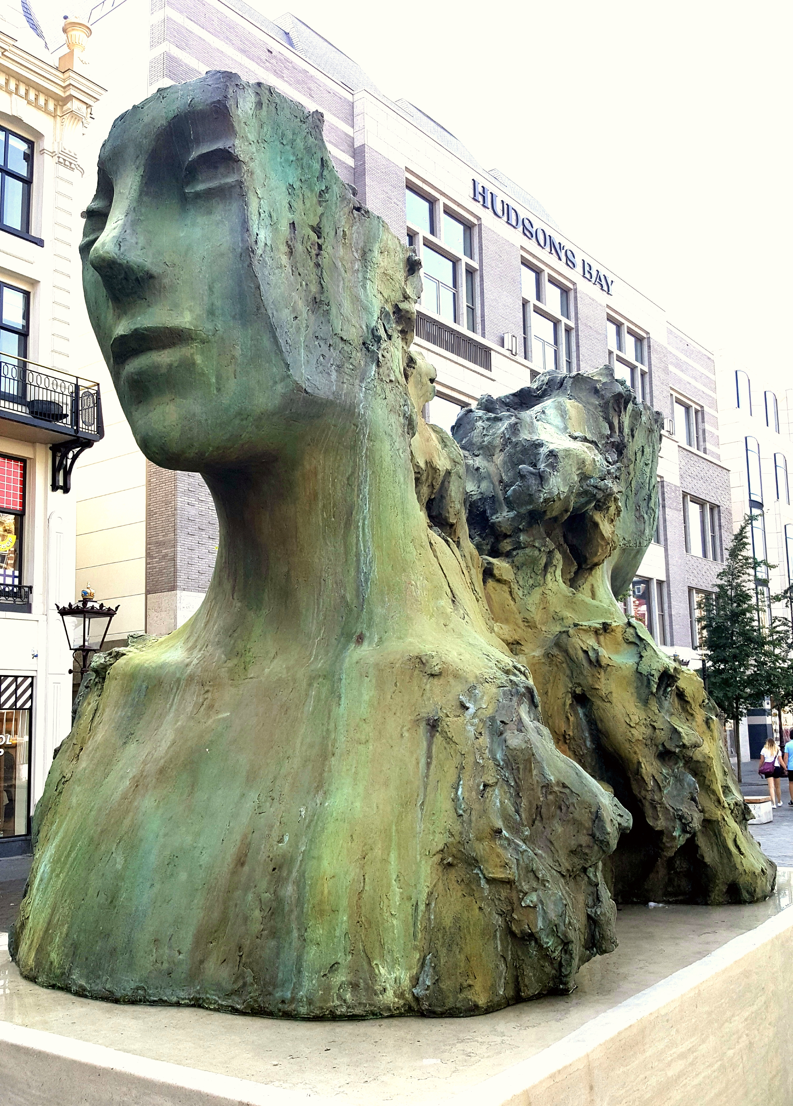 This is Rokin zone Amsterdam